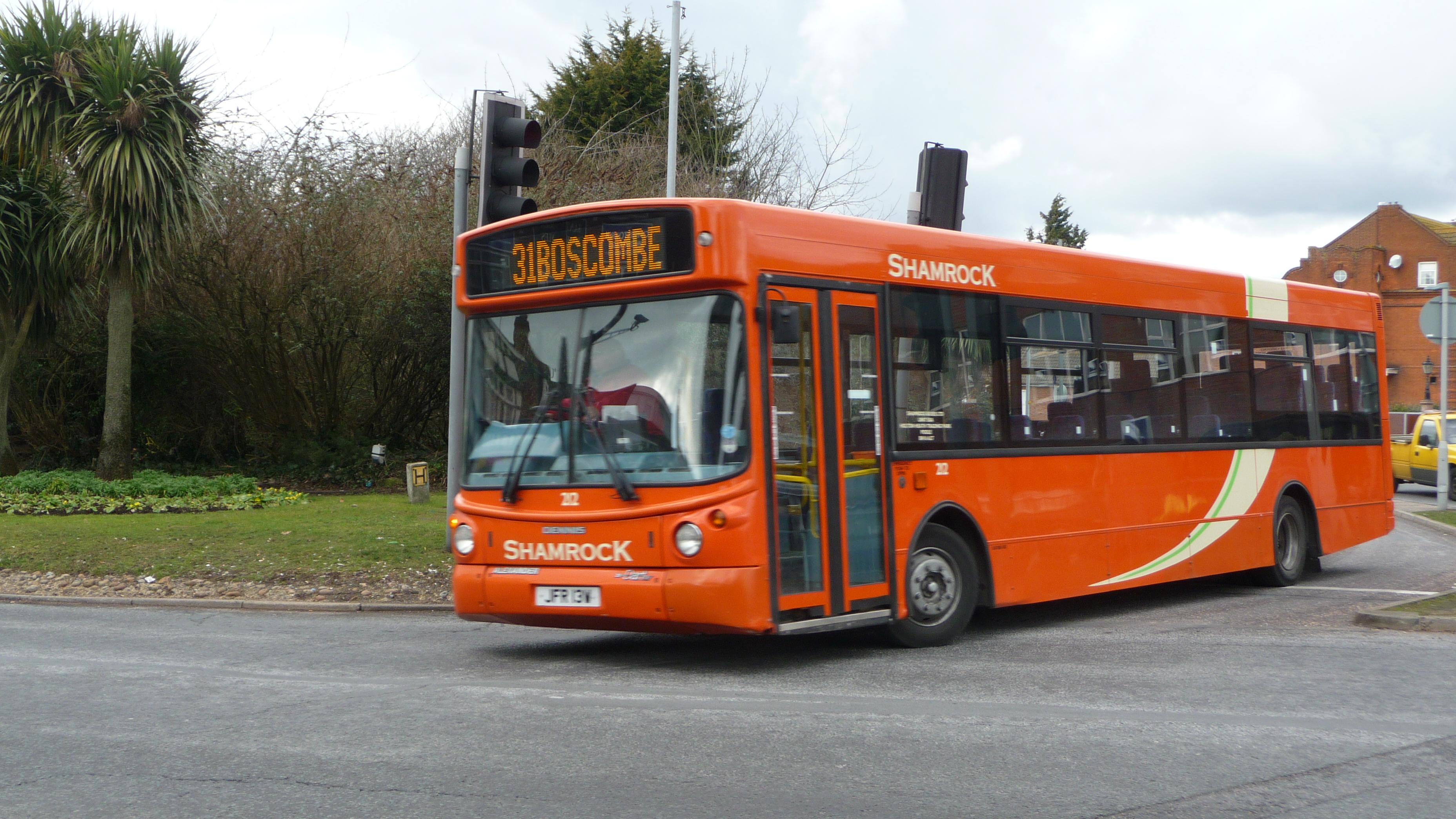 Shamrock Buses 212 (JFR 13W, formerly X242 ABU), a Dennis Dart SLF/Alexander ALX200, in Fountain Way, Christchurch, on route 31. Due to the closure of Bridge Street, buses were unable to serve the High Street as they could not get to the Civic Offices (where the 31 usually terminates) and so had nowhere to turn around. As a result, route 31 was terminating in Bargates, and is seen here using Fountain Roundabout to turn around. Seen here the bus is coming out of the bus only traffic lights.